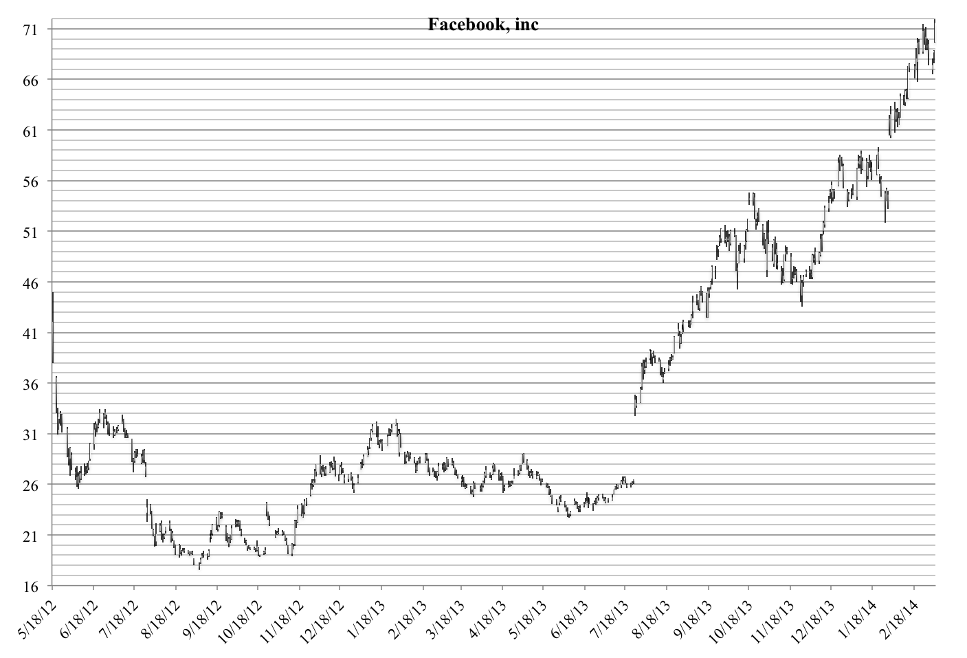 Open-High-Low-Close from 05.18.2012-03.05.2014